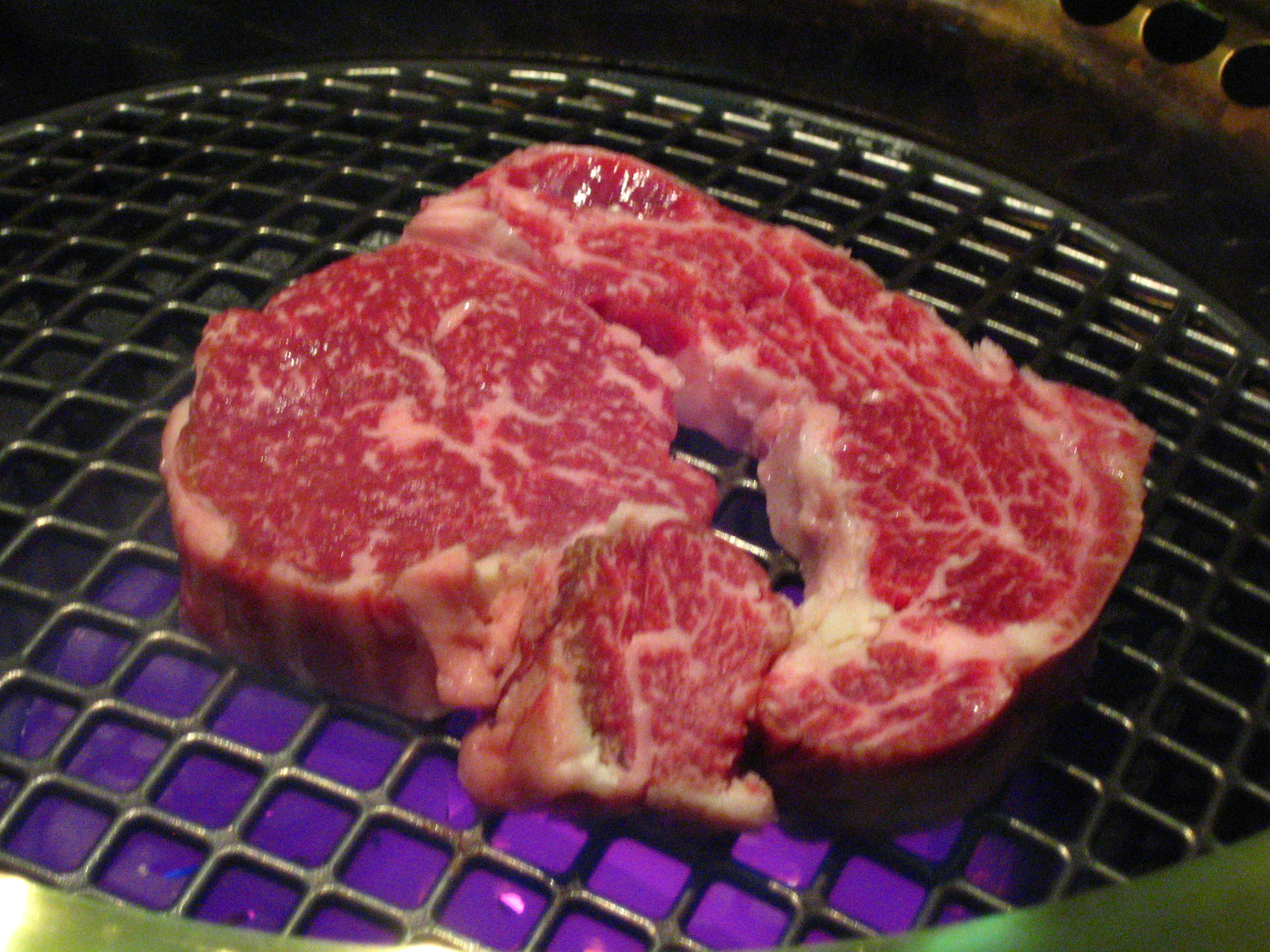 등심구이 in Korean cuisine.